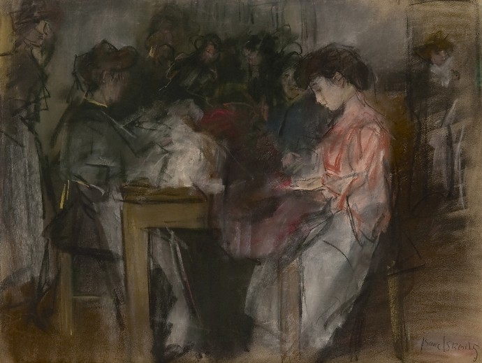 Isaac Israëls, Seamstresses at Atelier Paquin, Paris, pencil and pastel on paper, 48 x 63 cm, ca. 1904. See here for Christie's sale and here for backgound information.